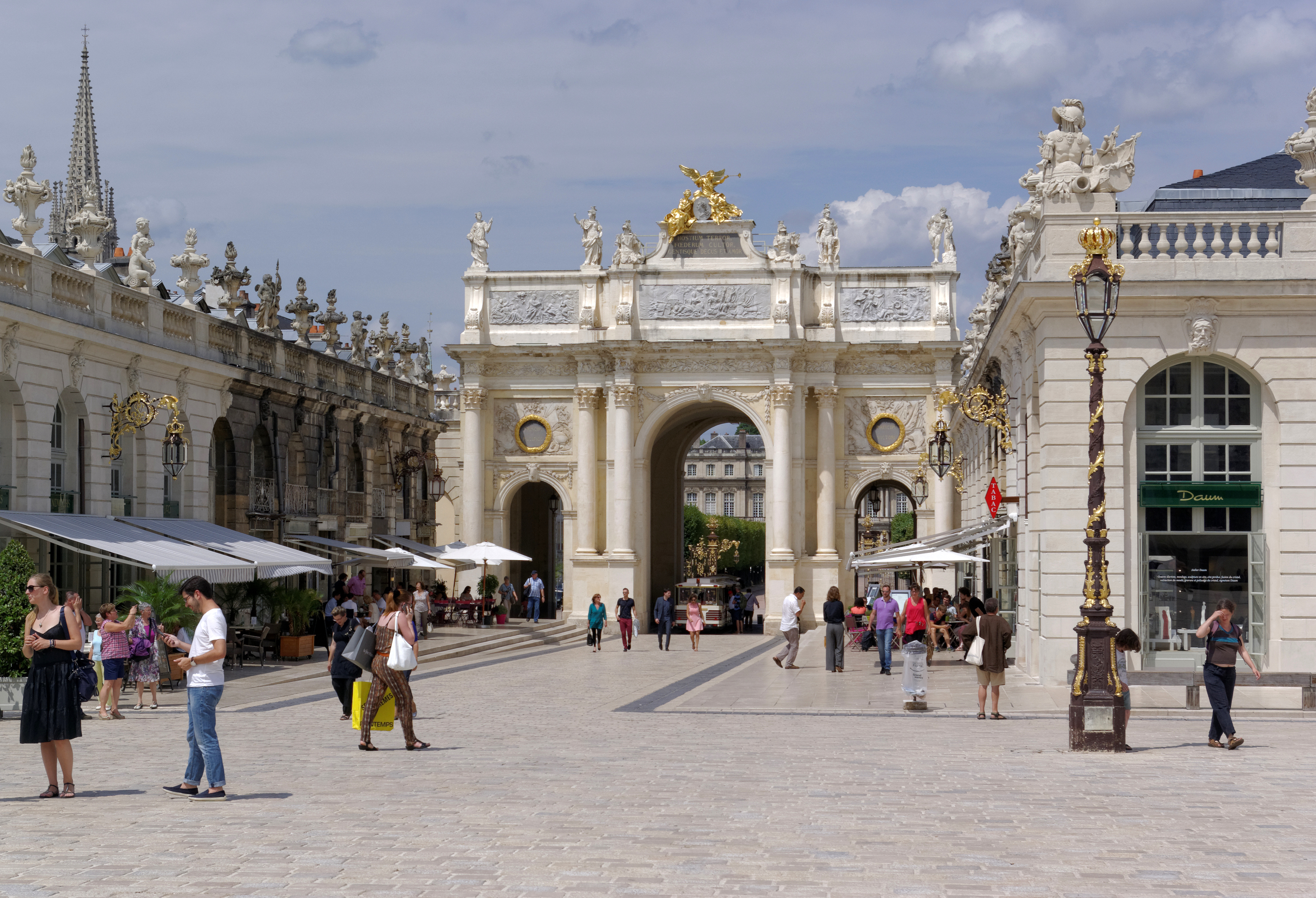 France, Nancy, Porte Héré